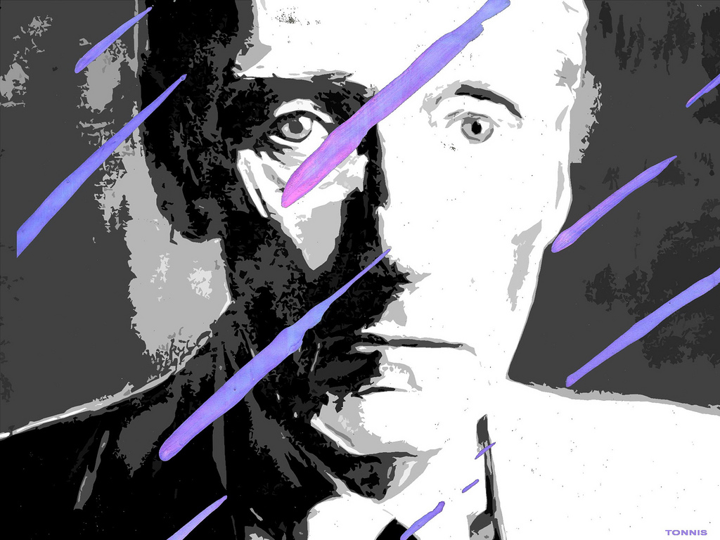 Christiaan Tonnis ~ William S. Burroughs / Video / Laserprint / 2006